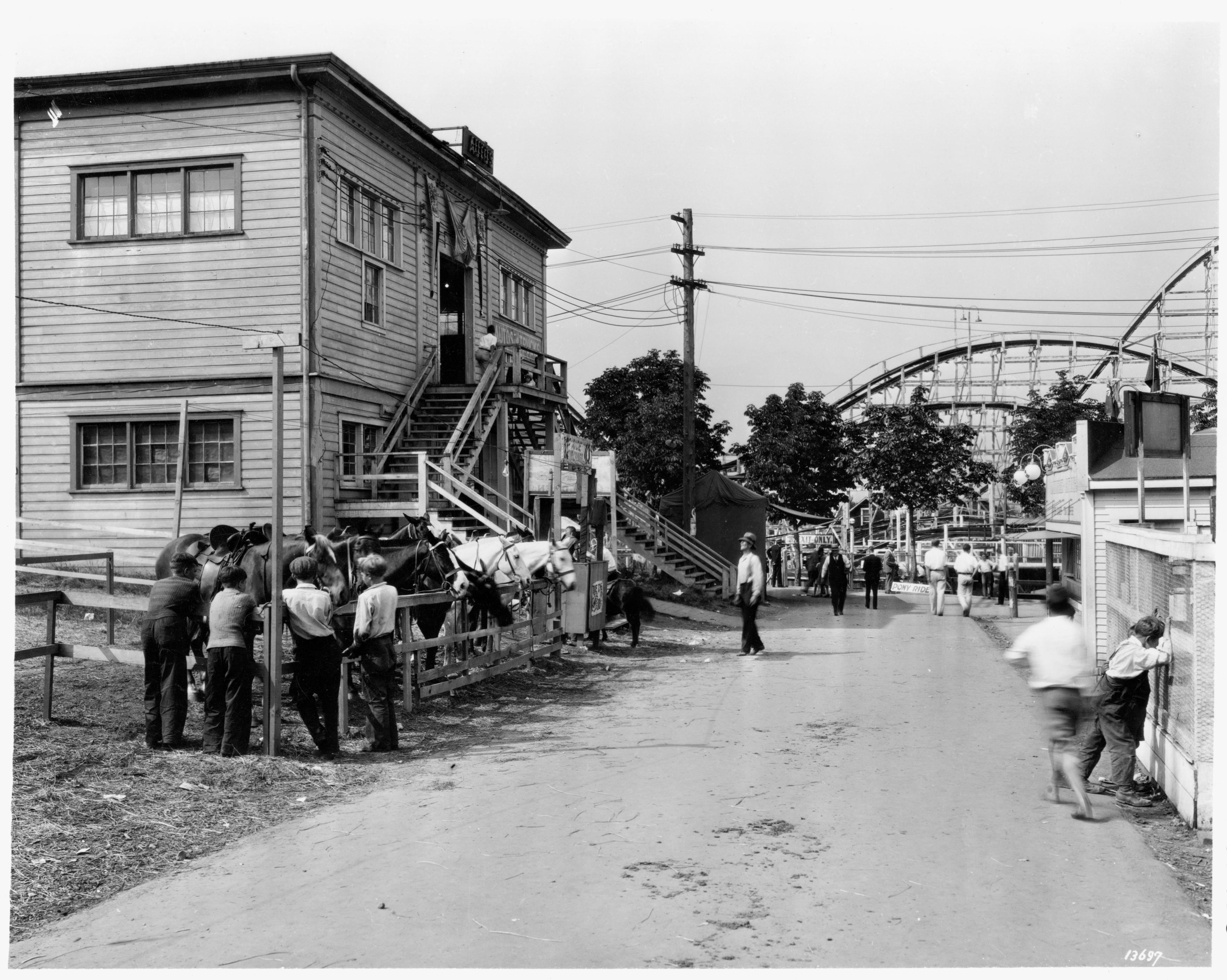 Pacific National Exhibition pony rides VPL 12268 Date: August 8, 1930 Photographer/Studio: Unknown Content: Giant Dipper in background Topic: Fairs Horses More information on our historical photograph collection